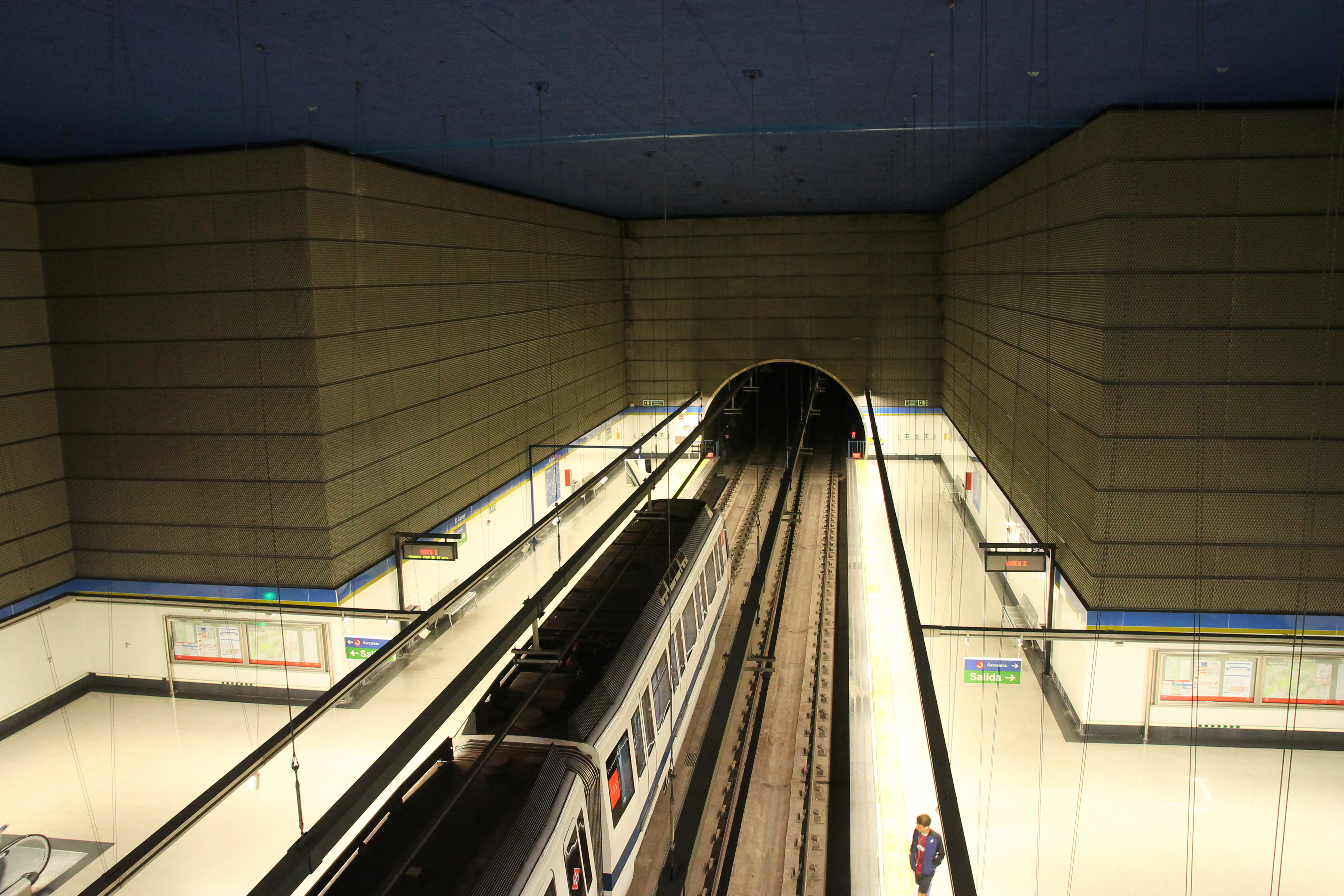 El Casar metro station, line 12, Madrid